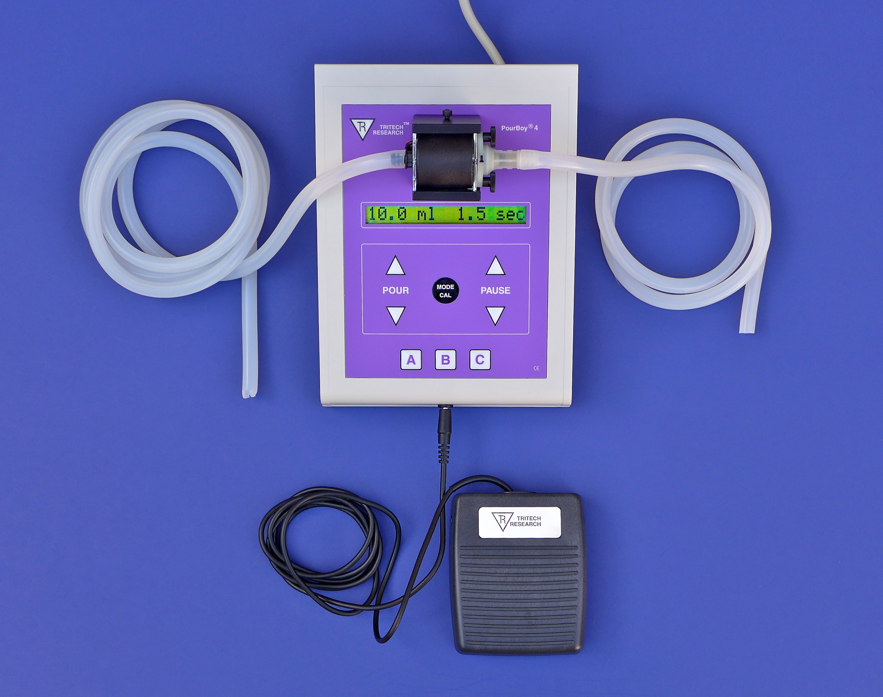 The PourBoy is a device for repetitively dispensing consistent volumes of liquids, while maintaining sterility of the liquids. The black cylinder near the top is an induction coil and functions as an electromagnet. When energized, it attracts a metal piston within the pump inside it, causing the piston to move to the right and push a small amount of liquid from the input tube on the left to the output tube on the right. Valves inside the pump prevent backward flow. When the coil is de-energized, a spring inside the pump pulls the piston back to its starting position. By repeatedly, rapidly energizing and de-energizing the coil, a stream of liquid is pumped through the system. The control box regulates how long the pump is on, or the number of piston cycles required to deliver a particular volume.